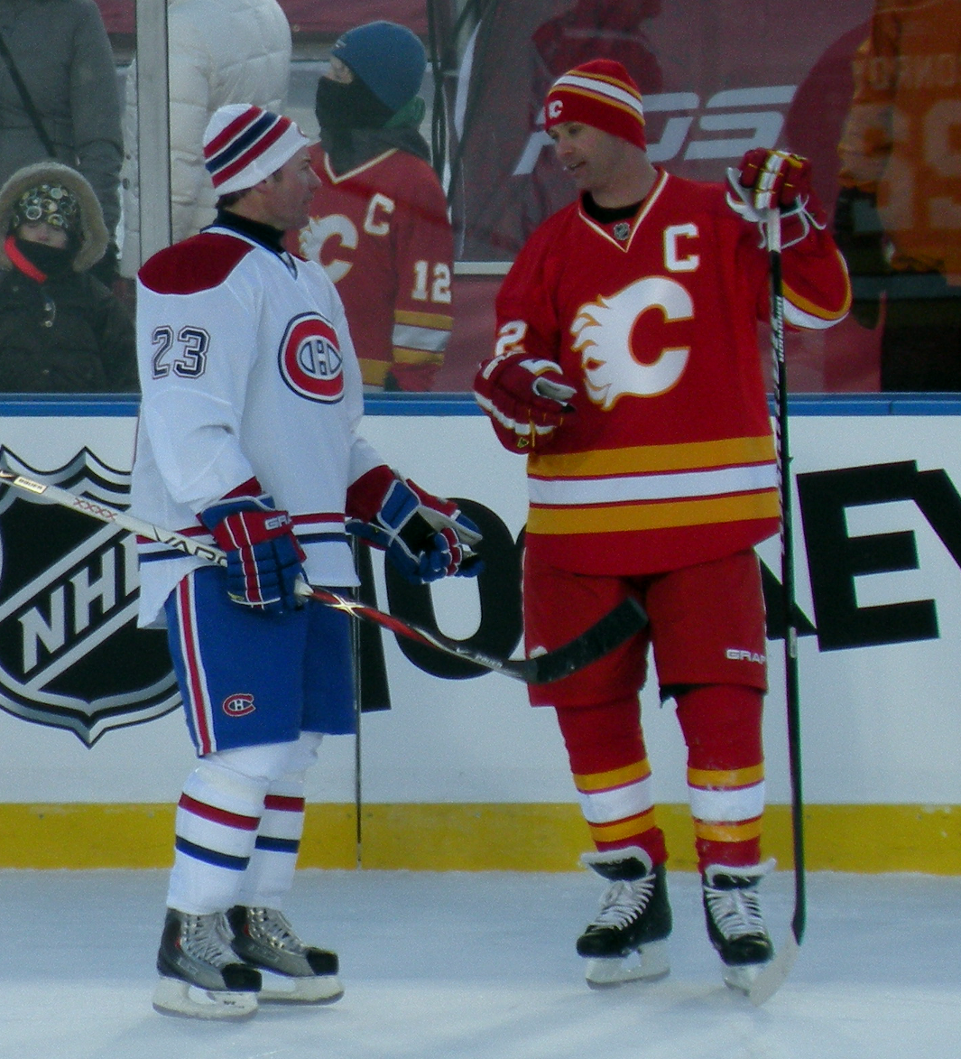 Former NHL players Martin Gelinas (left, white) and Craig Conroy (right, red) talk during a stoppage in play during the alumni game at the 2011 Heritage Classic in Calgary.